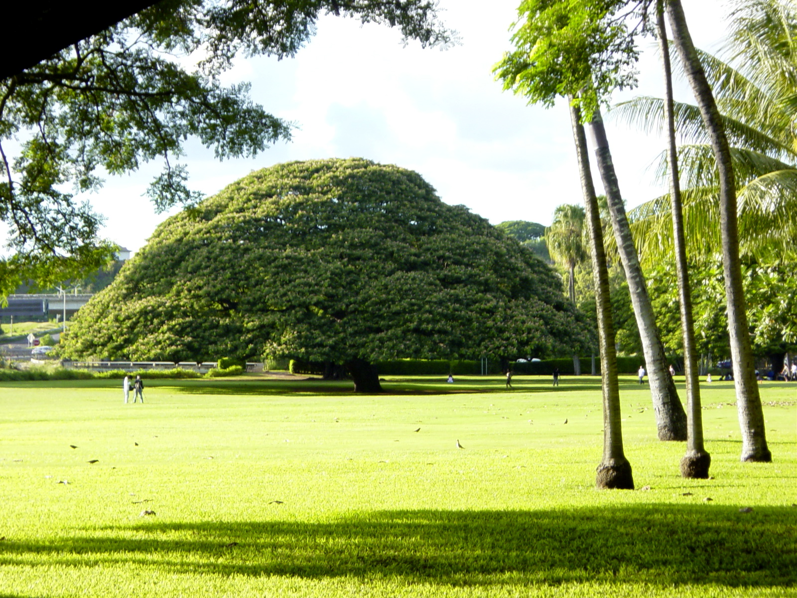 A tree at Moanalua gardens